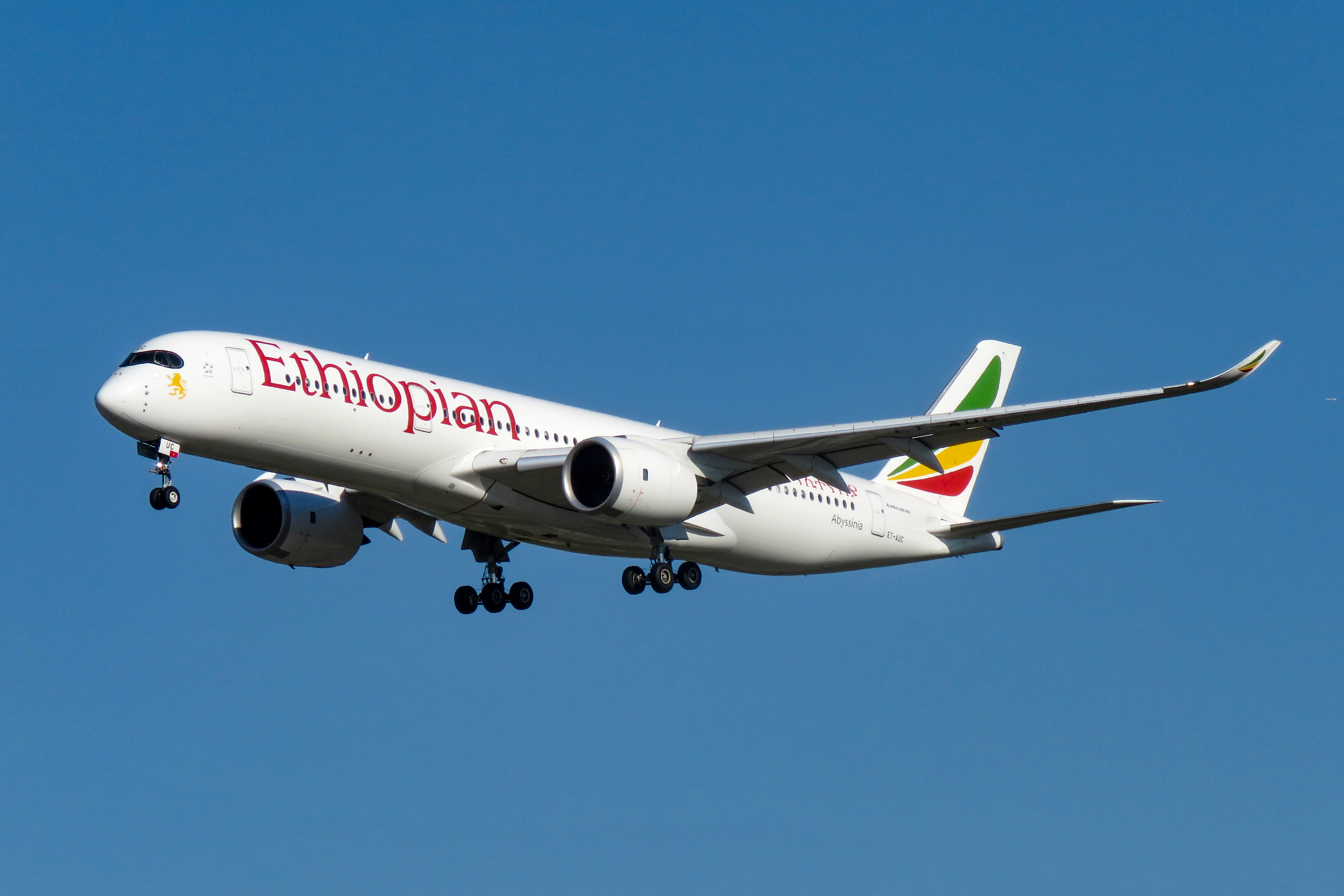 Ethiopian 604 from Addis Ababa. My first time to see ET's A350s.